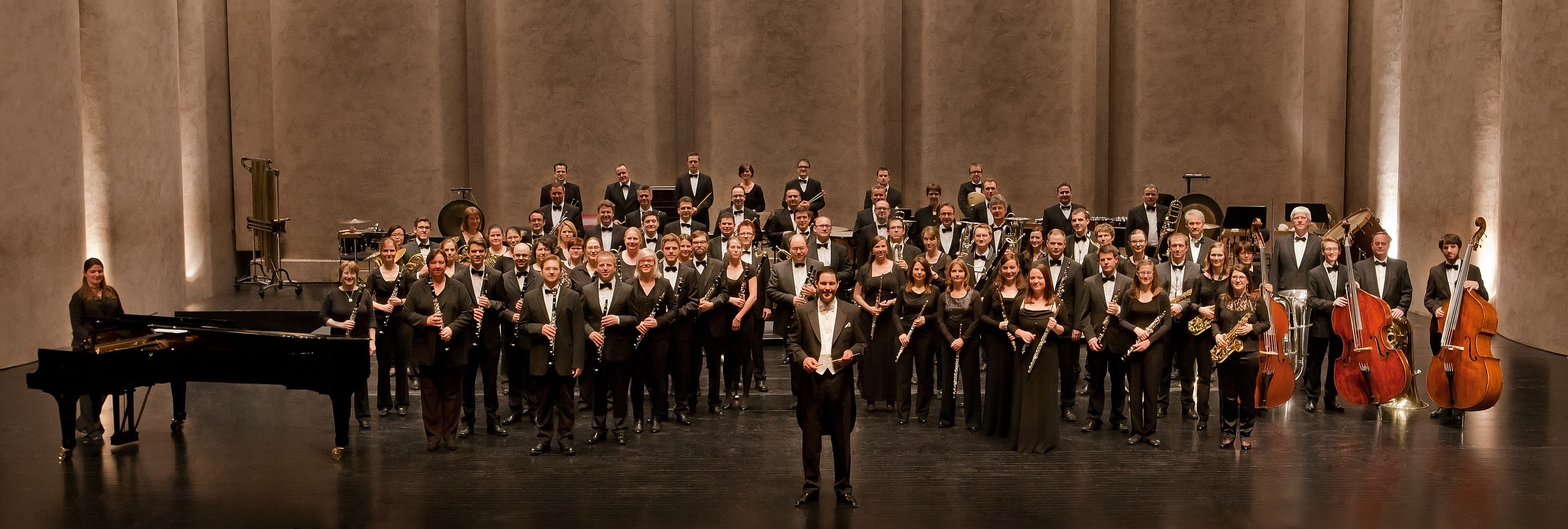 Official picture of the orchestra (Landesblasorchester Baden-Württemberg)